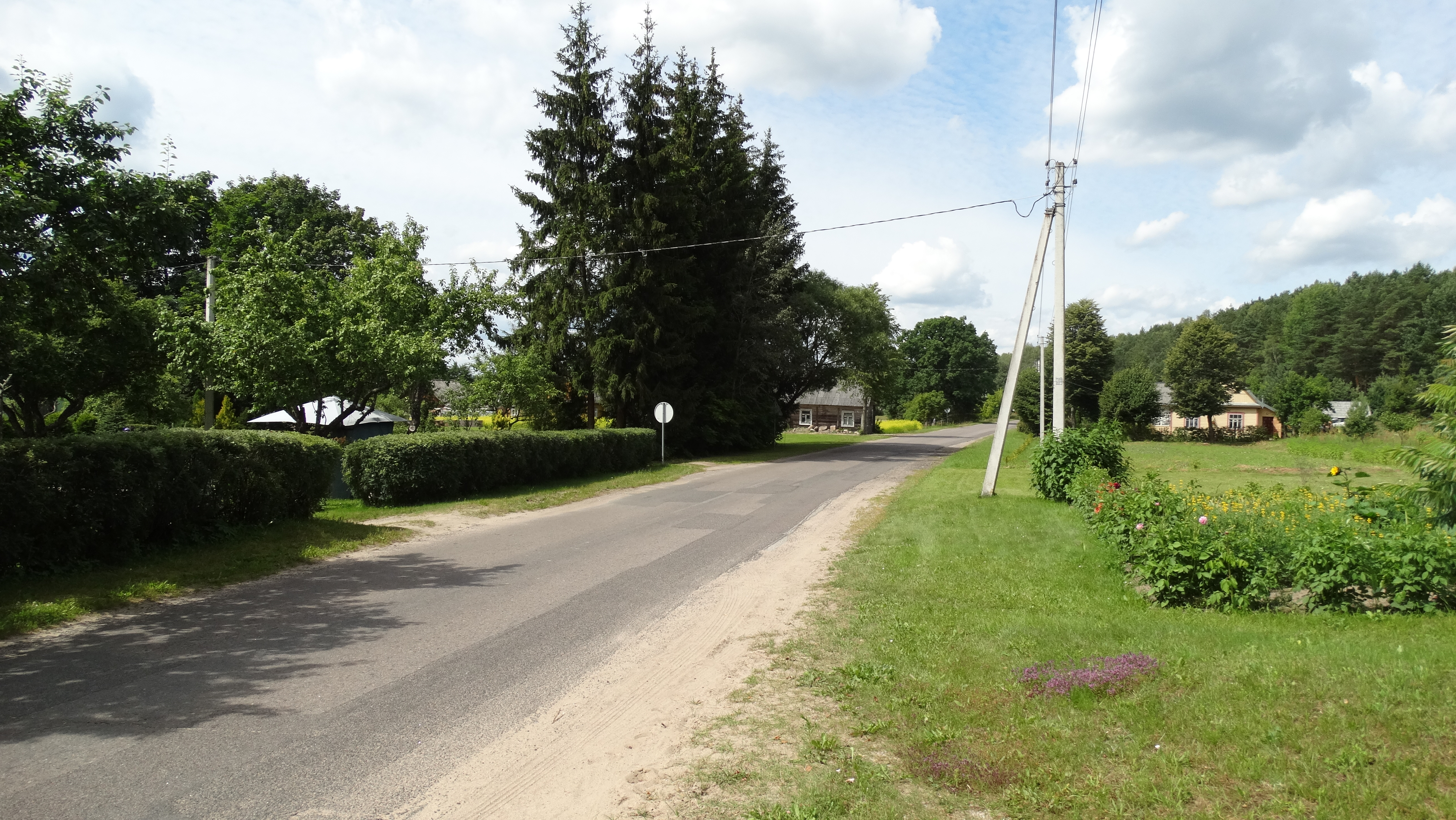 Vaišniūnai, Ignalina District, Lithuania